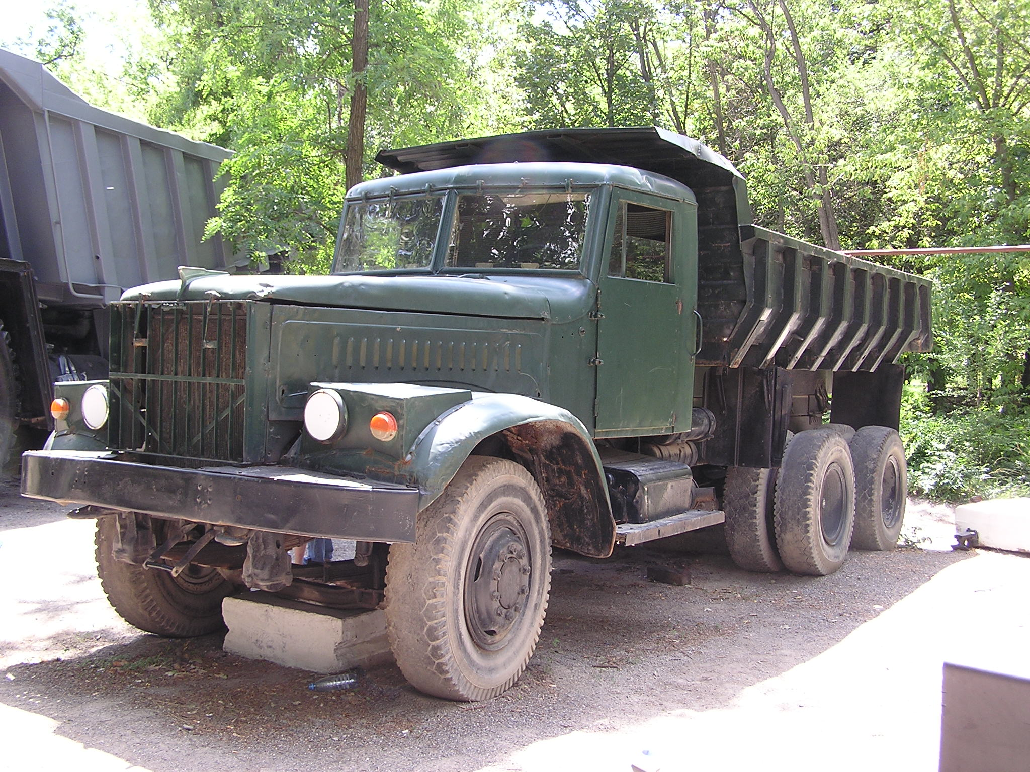 KrAZ-256 B1 in Museum of Dokuchaevsk flux-dolomite сombine